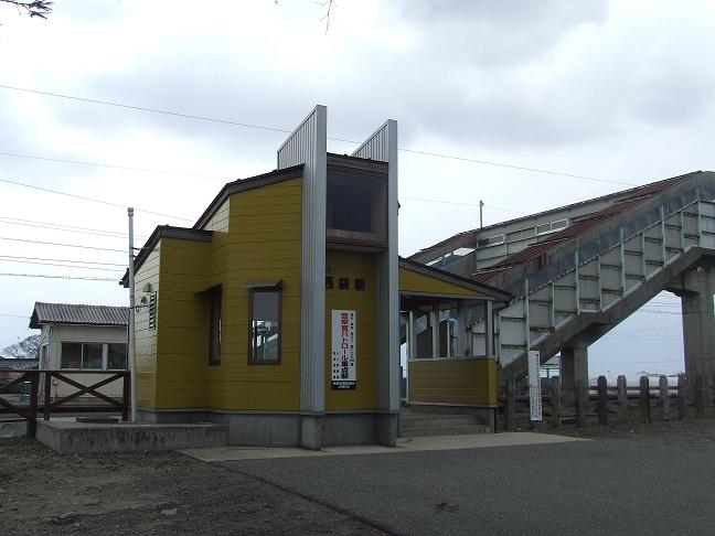 Nishibukuro Station building